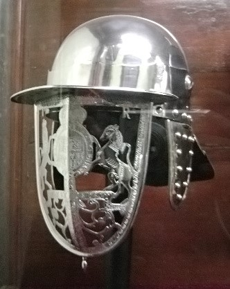 This is a reproduction of a late 17th century helmet attributed to King James II of England (James VII of Scotland) of a modified "lobster tailed pot" type (also called a capeline or zischagge), with the usual three bar face protection replaced by an openwork depiction of the royal arms of England.